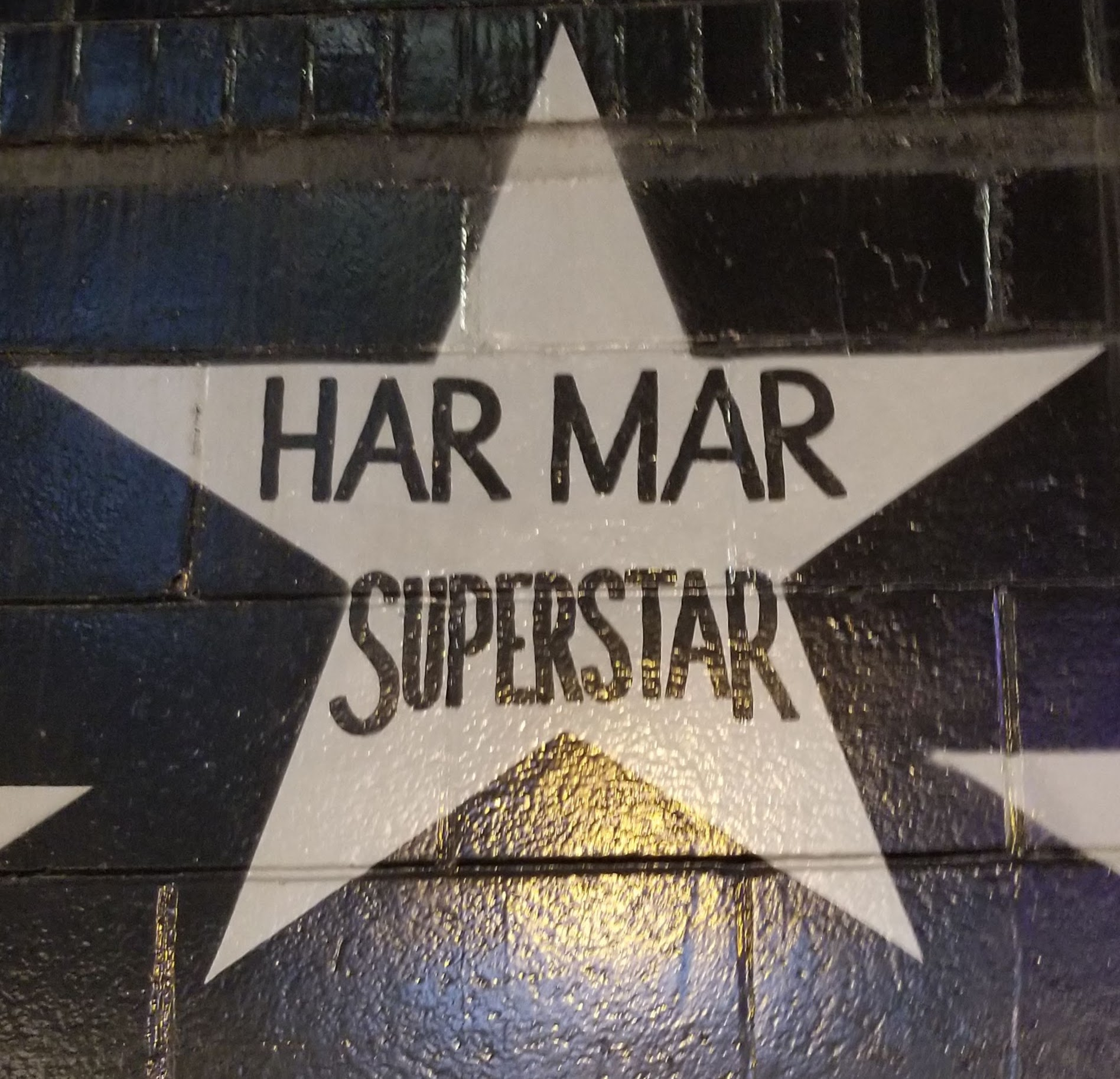 Star representing musician Har Mar Superstar (Sean Tillman) on the outside mural of the Minneapolis nightclub First Avenue